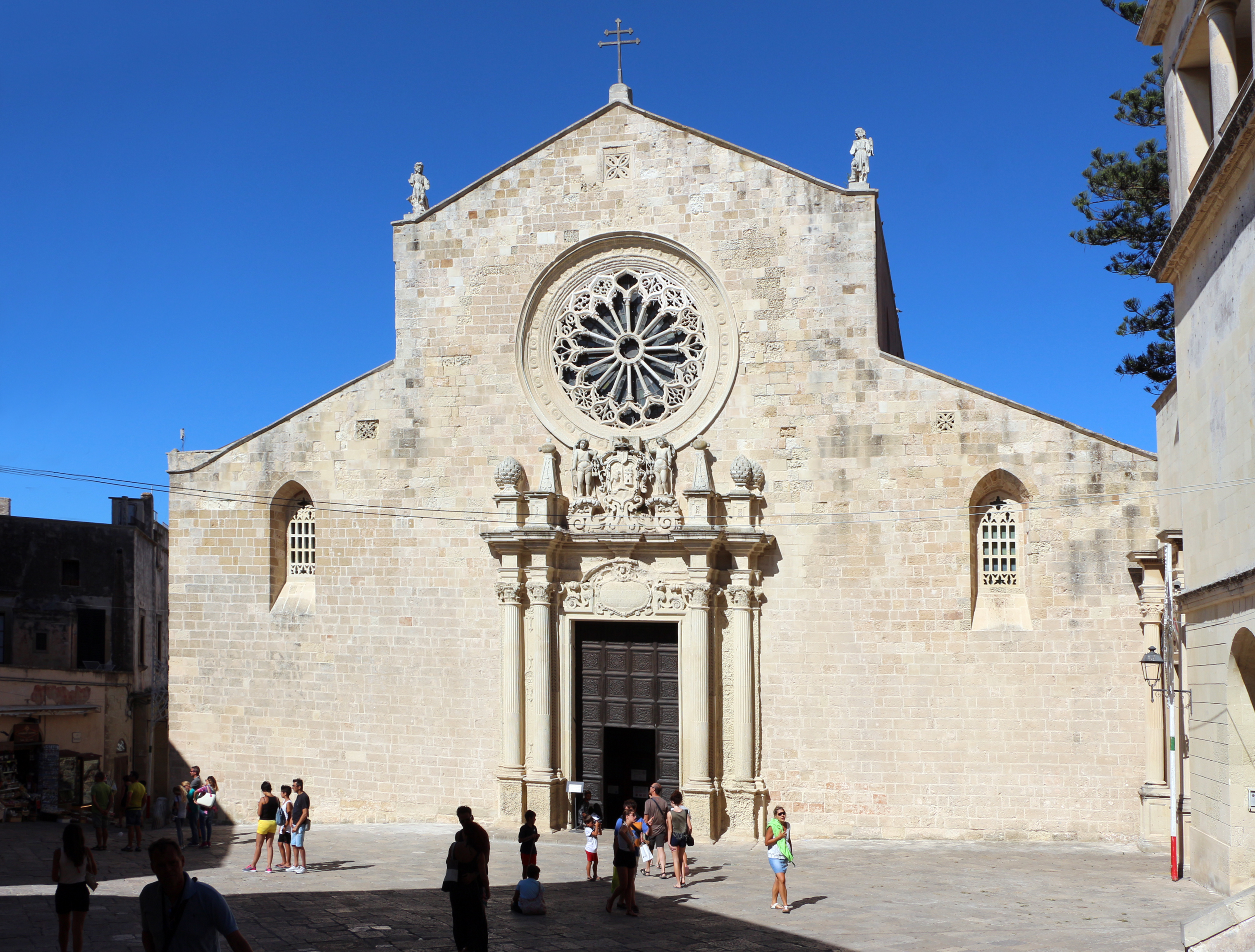 Cathedral (Otranto)